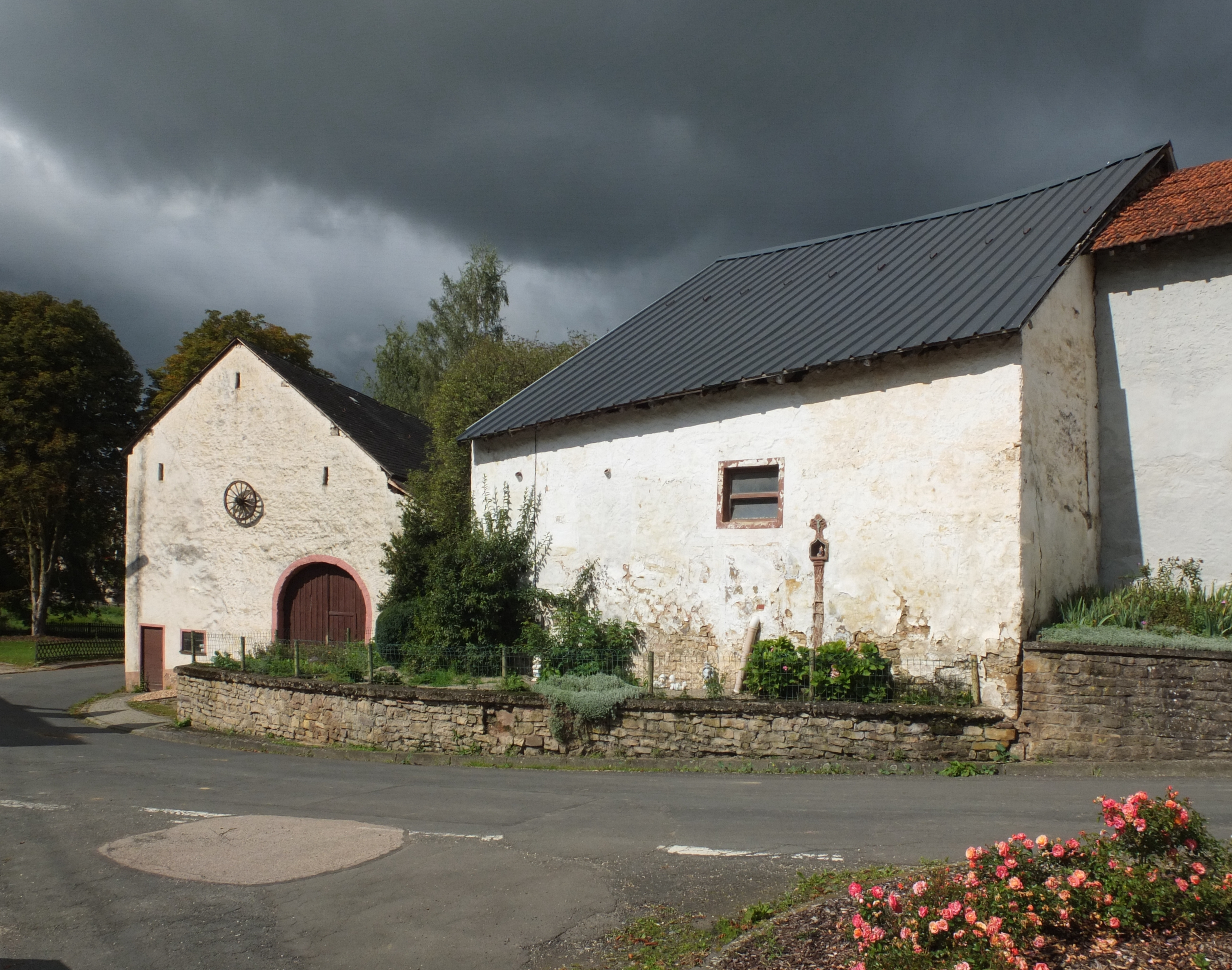 Wayside cross (15th-16th ctry.) in the wall of Hauptstraße 20, Idesheim, Germany. This is a photograph of an architectural monument.It is on the list of cultural monuments of Idesheim